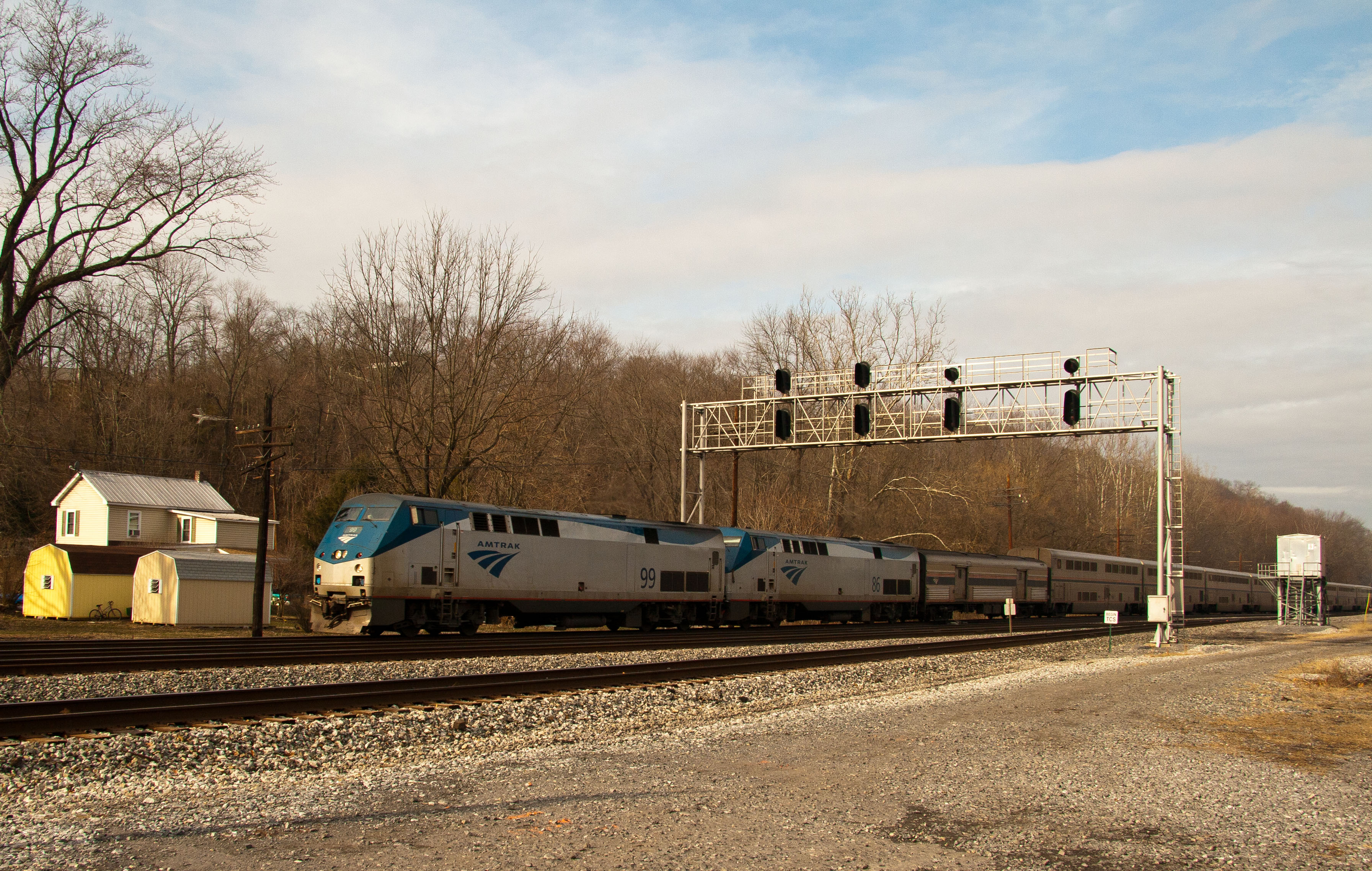 Amtrak #30, 'The Capitol Limited' makes it last eastbound run of 2010 on December 31st. The train is passing through Cherry Run, WV and is running about an hour late.